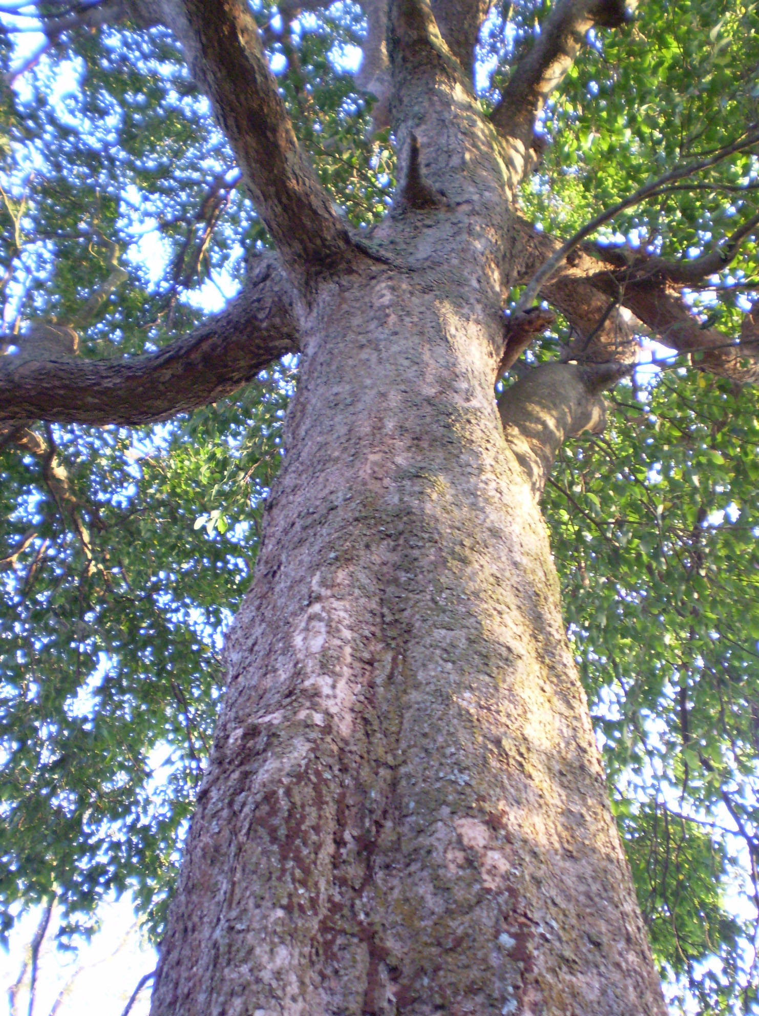 Irvingia malayana